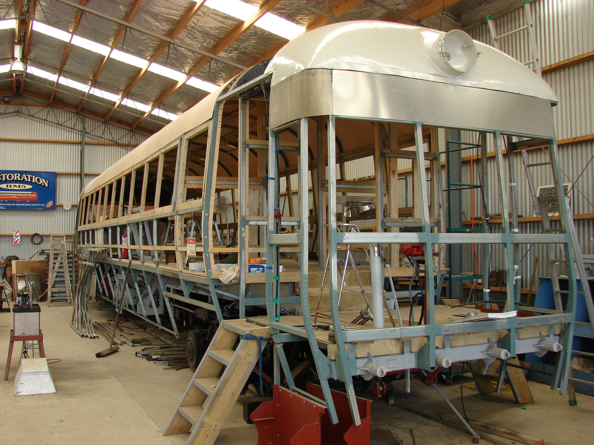 The sole surviving member of the NZR RM class (Wairarapa), RM 5, currently undergoing restoration at the Pahiatua Railcar Society. Photographed by Matthew25187 on 2007-12-16.